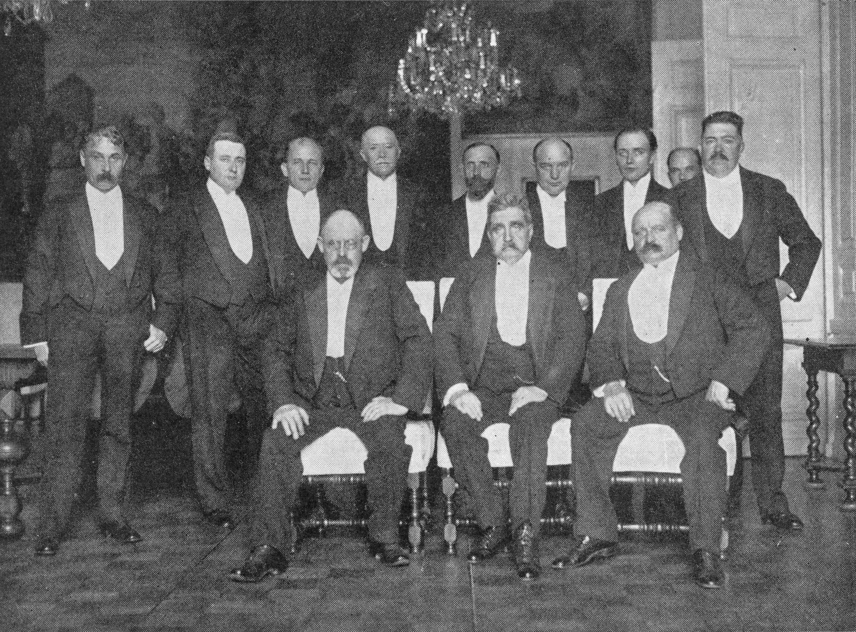 The first Social Democratic government of Sweden was formed March 10, 1920, and after the reorganization June 30, it had this composition: Standing: O. Olsson (Secretary of Ecclesiastical Affairs), T. Nothin (consultant), K. Schlyter (consultant), A. Åkerman (Attorney General), S. Linders (Secretary of Agriculture), P.A. Hansson (Secretary of Defense), A. Örne (Secretary of Communications), R. Sandler (consultant), and C.E. Svensson (Secretary of Trade). Sitting: F.V. Thorsson (Secretary of Finance), Hjalmar Branting (Prime minister and Secretary of State), H. Lindqvist (Secretary of Health and Social Affairs).